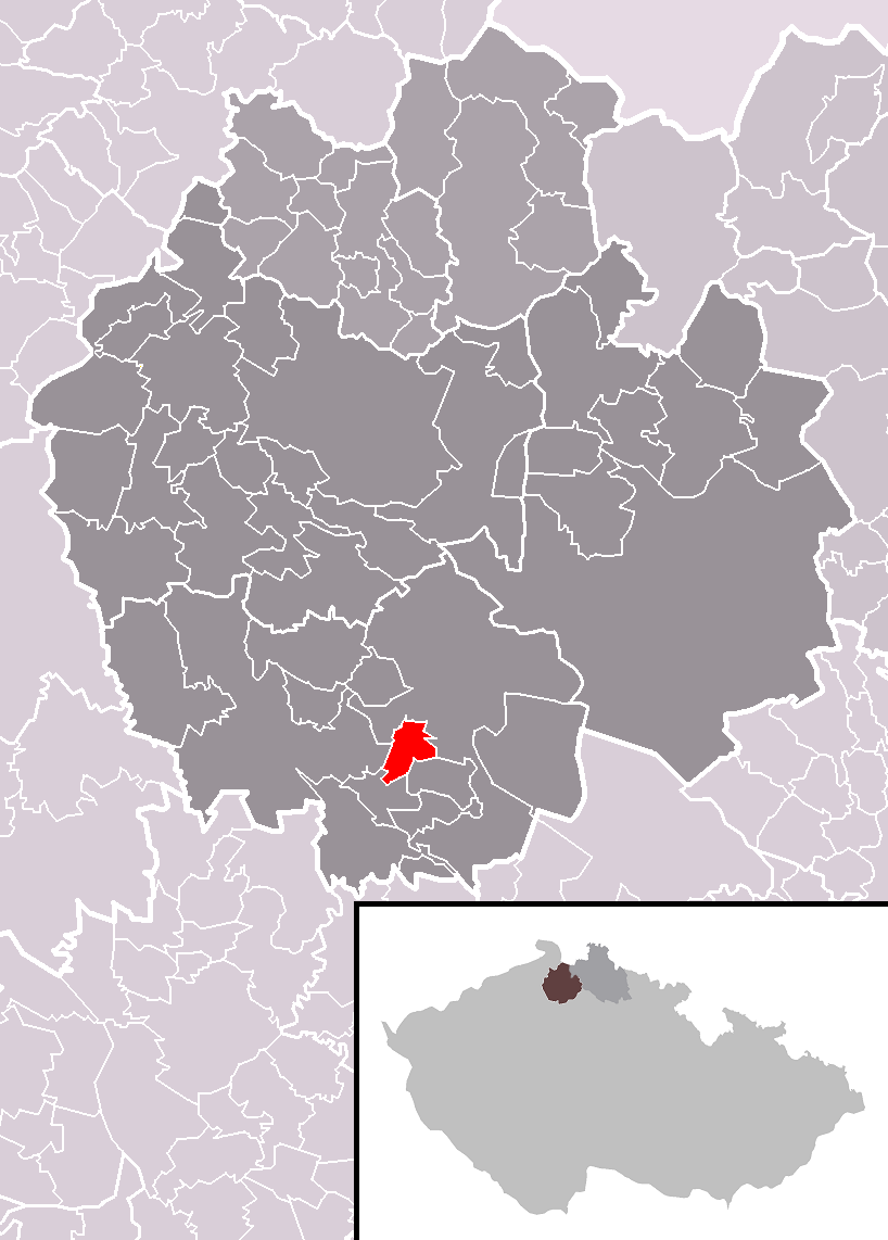 Location of Tachov municipality within Česká Lípa District and administrative area of Česká Lípa as a Municipality with Extended Competence.